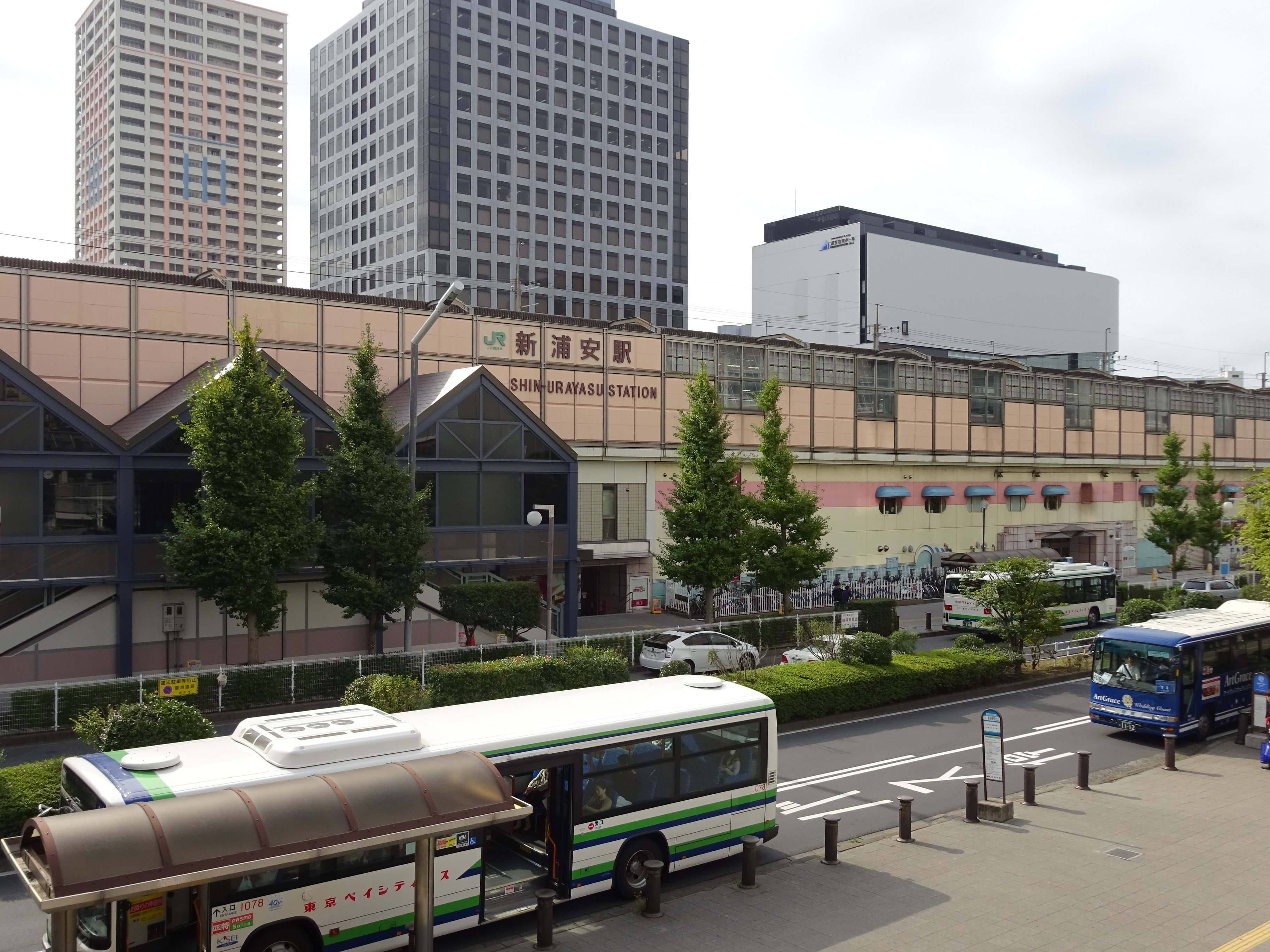 North entrance of Shin-Urayasu Station